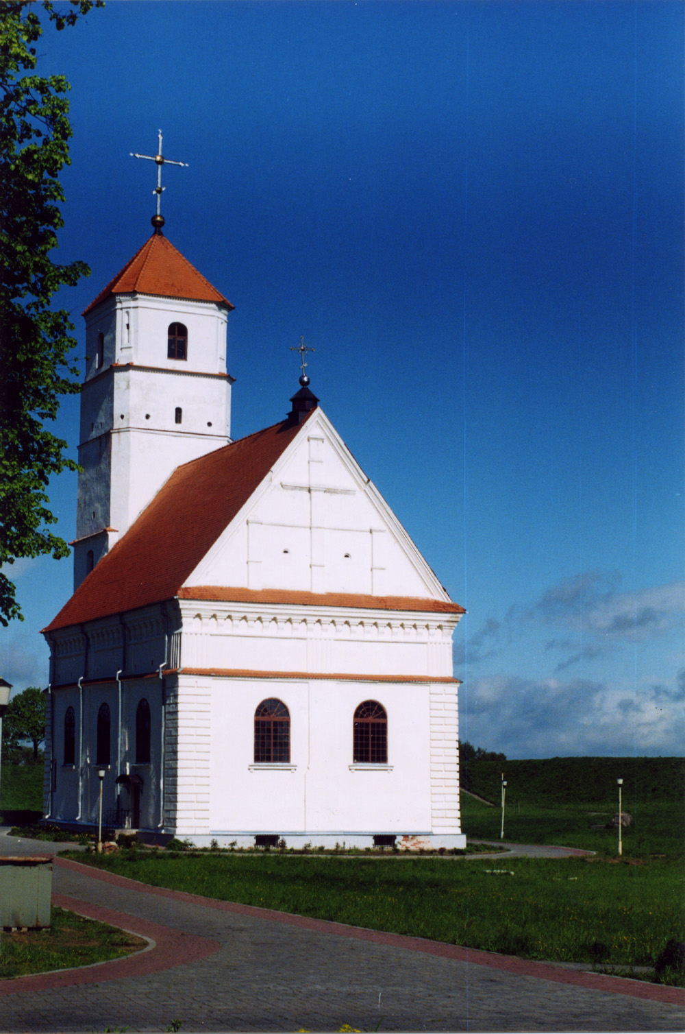 Church of Transfiguration, Zaslauje, Belarus.